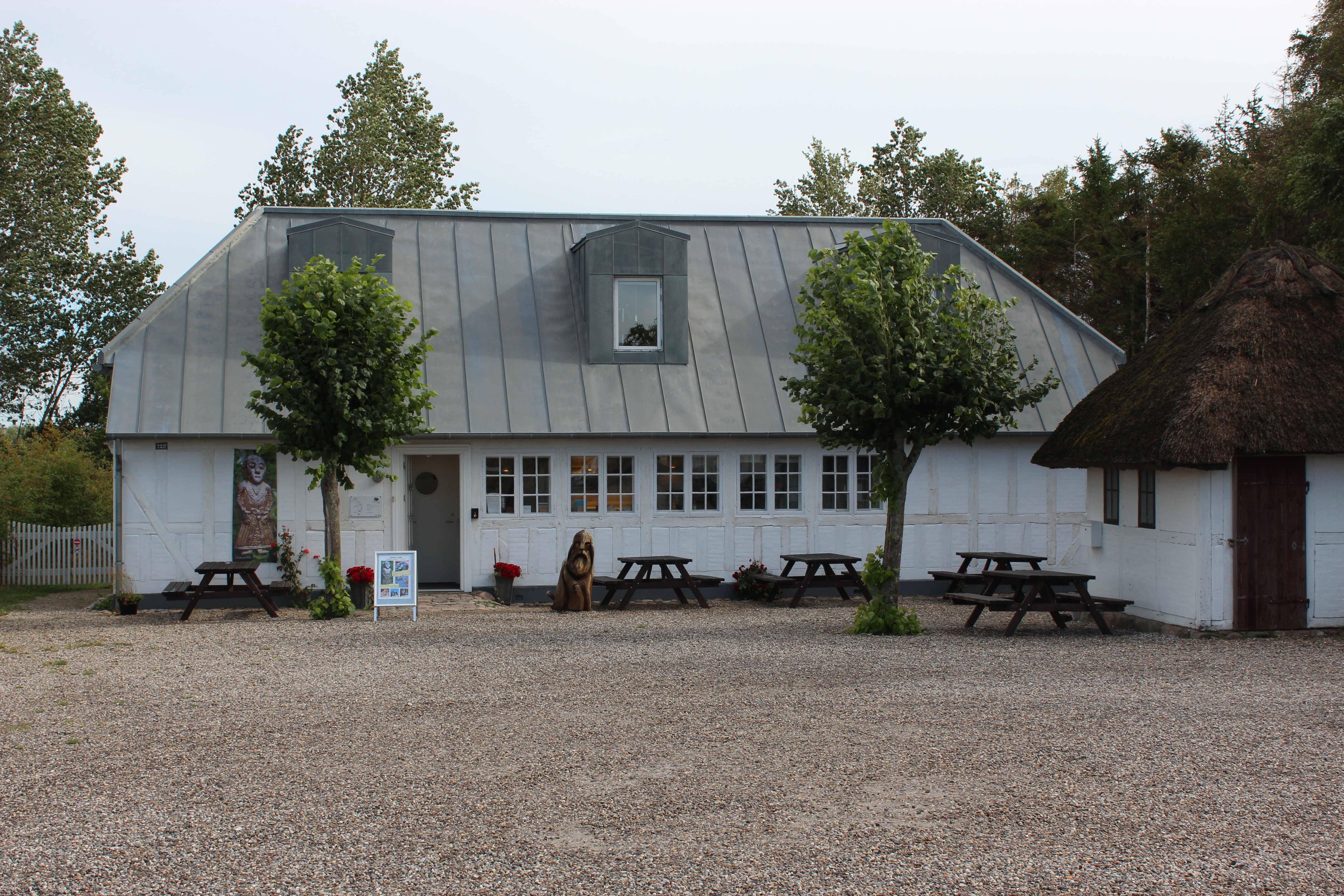 Entrance building to the Viking Museum Ladby, Funen, Denmark